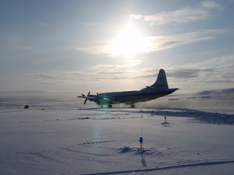 NASA P-3 Orion Morning taxi in Thule The plane is a part of the ICE Bridge NASA program